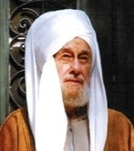 Dr. Martin Lings, Shaykh Abu Bakr Sirajudeen, in 2001.